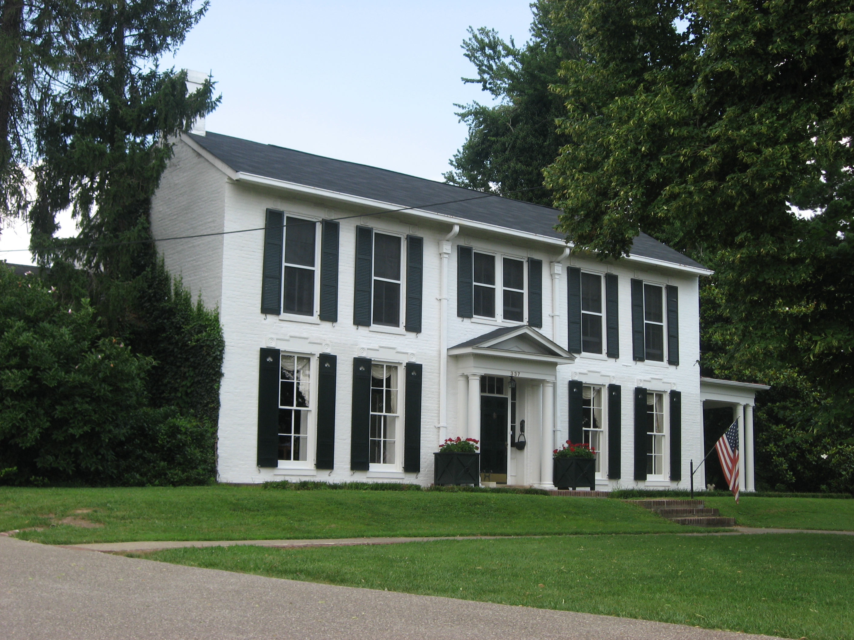 Front and western side of the Samuel B. Thomas House, located at 337 W. Poplar Street in Elizabethtown, Kentucky, United States. Built in 1844, it is listed on the National Register of Historic Places.